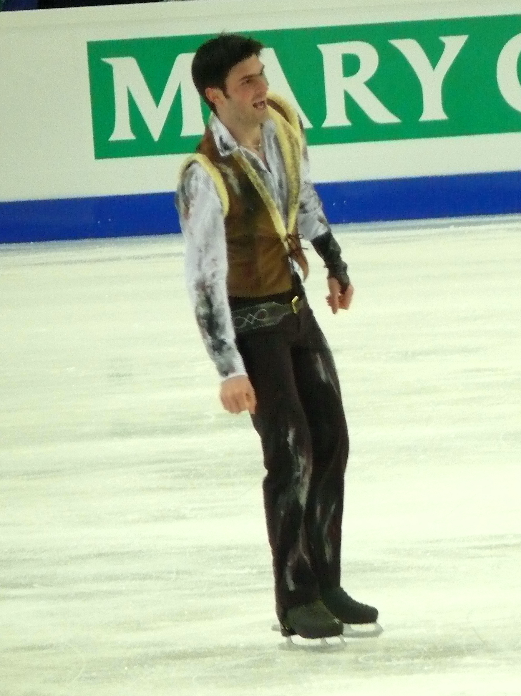 Samuel Contesti (ITA) just after his free program at the Europeans 2009 in Helsinki